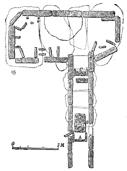 Schematic of the Klövagården Passage grave in Karleby parish, Falköping municpality, Västergötland, Sweden.